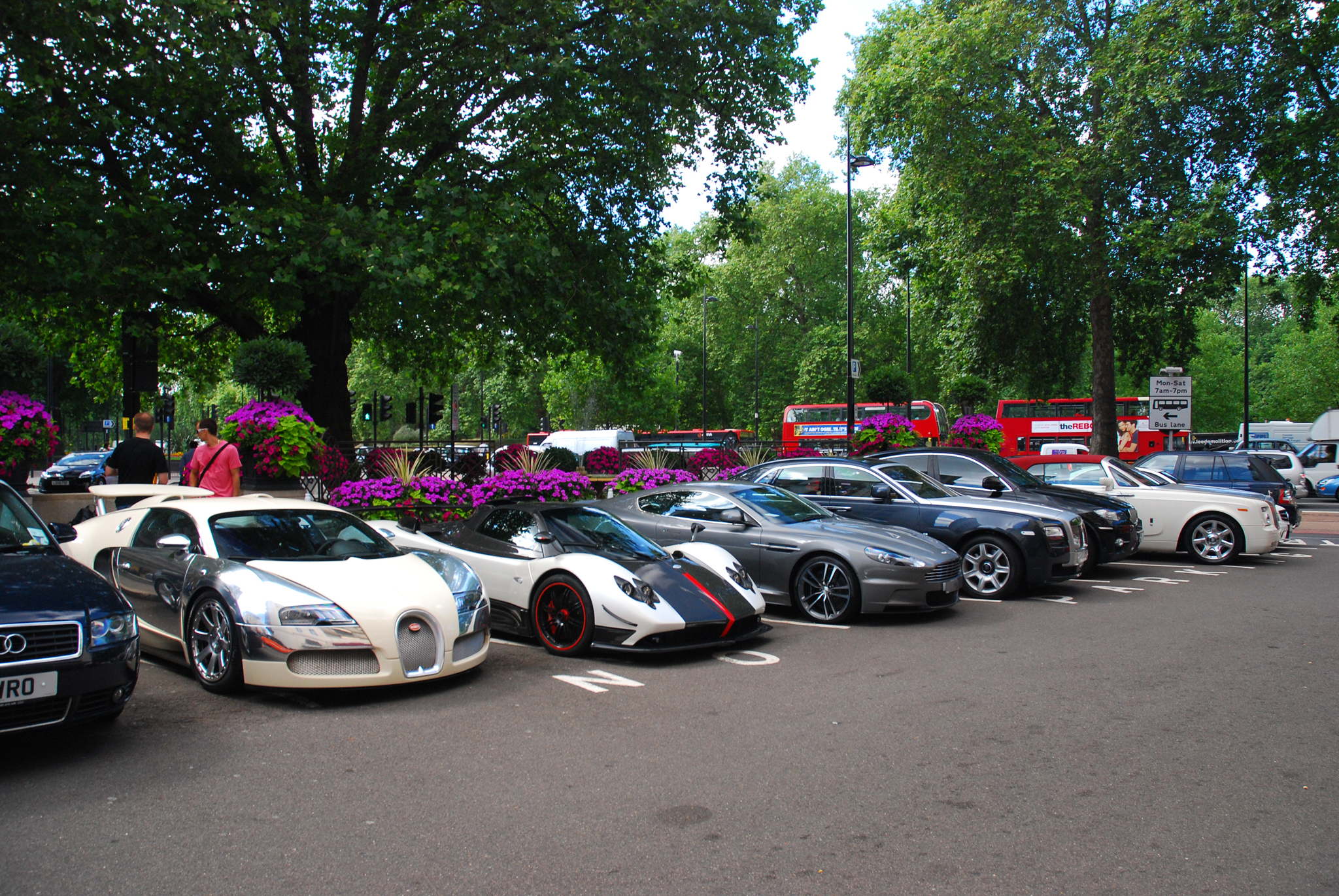 Car combo with Bugatti Veyron, Pagani Zonda Cinque, Aston Martin DBS, Rolls Royce, Ghost and Phantom Drophead Coupé, Mercedes-Benz C63 AMG near the Dorchester Hotel